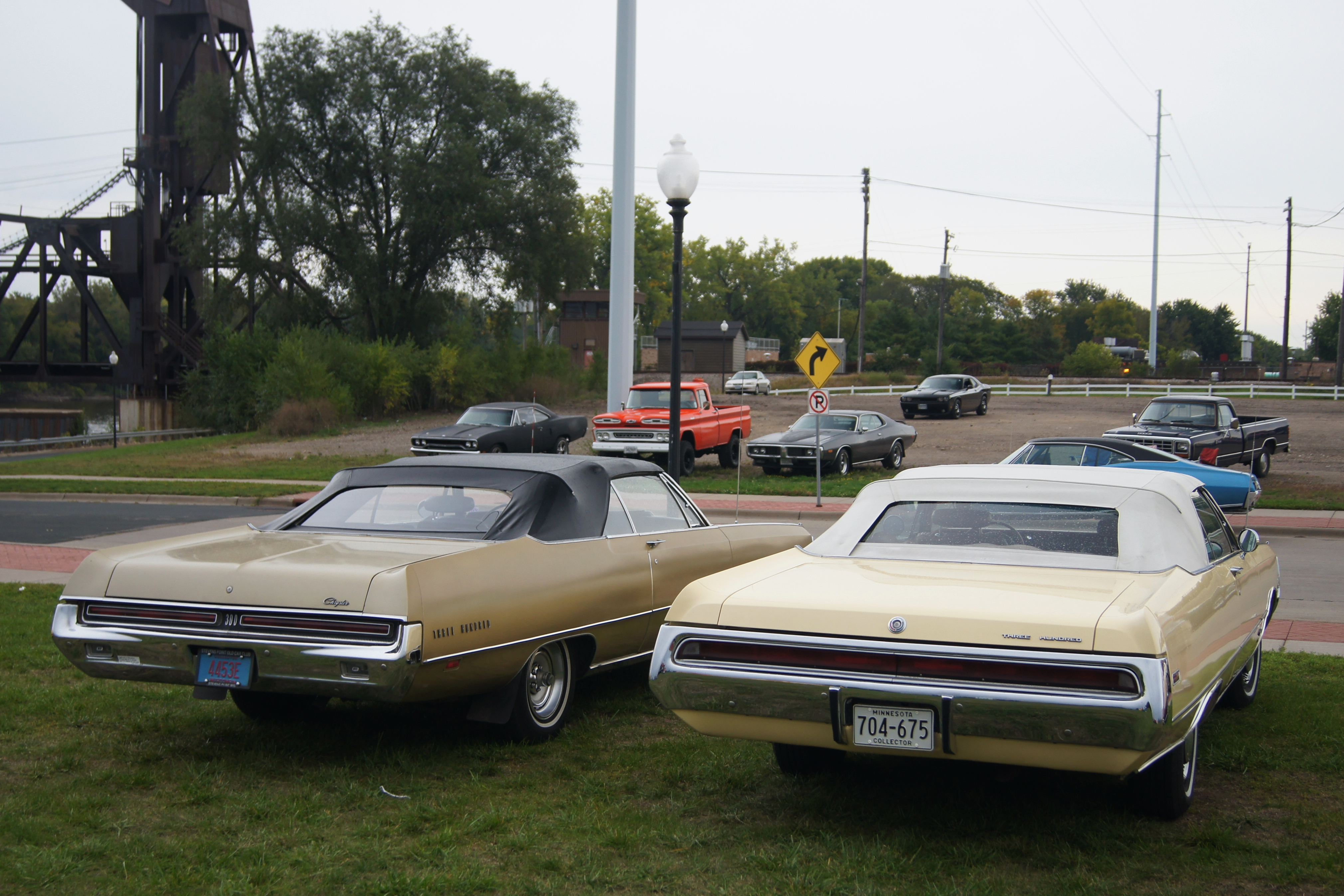 9th Annual Saturday Night Cruise-In September 20,2014 Hastings, Minnesota My second time to this event and the second time I got rained on. It was nice before and after the rain though. I did miss quite a few great cars that left before I could capture them, including a white 1962 Imperial that I caught a glimpse of at "Back to the 50's" More of my car pictures at my Flickr site